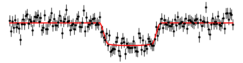 Spitzer Space Telescopes observation of a transit of K2-28b on February 11, 2017